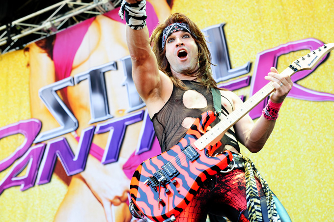 Soundwave Festival 2012 Do Not Publish